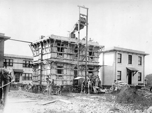 A concrete house made using Thomas Edison's ideas